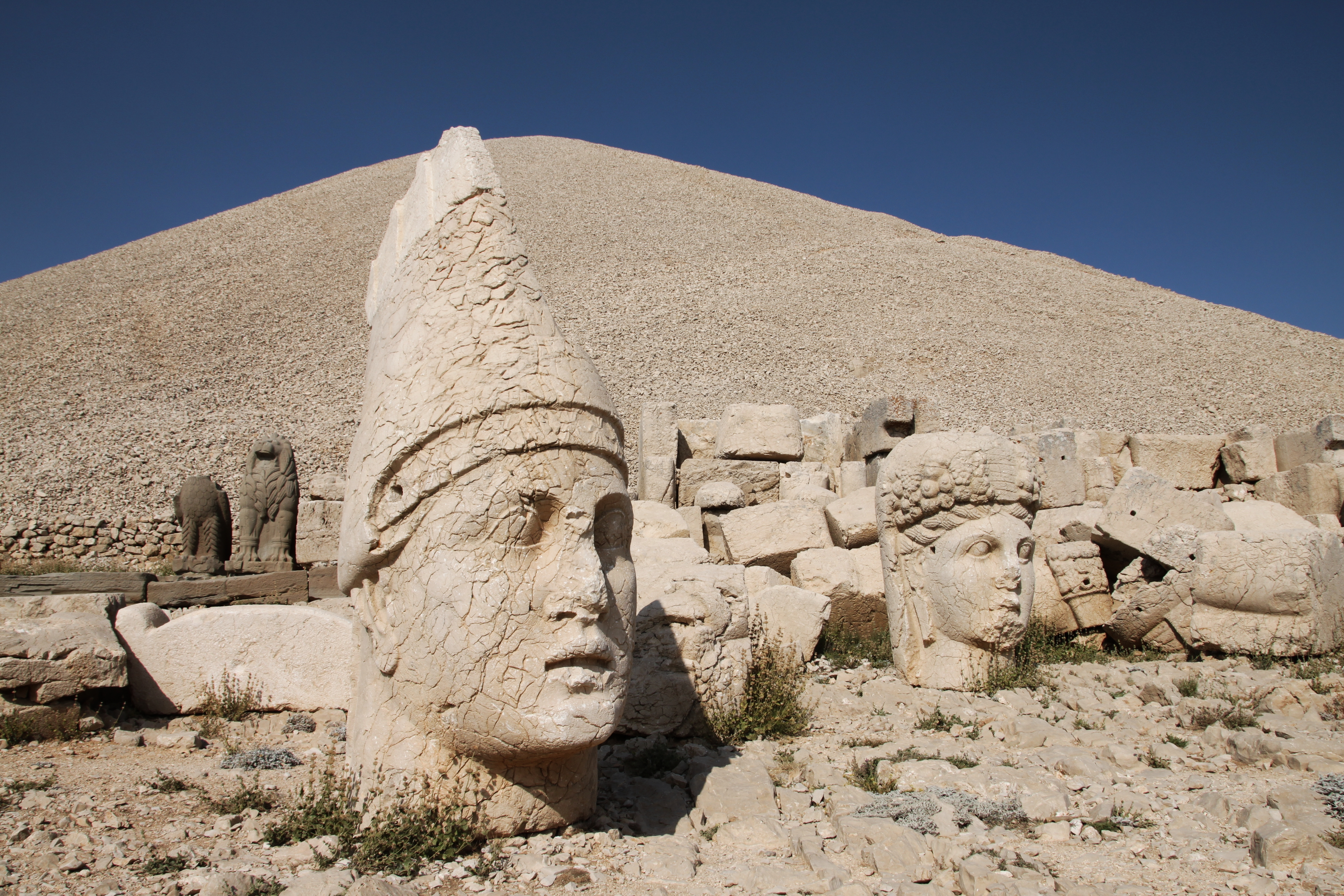 Mount Nemrut - West Terrace... On the left, the head of Apollo/Mithra/Helios/Hermes Nemrut Tümülüsü Gods of Commagene From Istanbul to Mount Nemrut